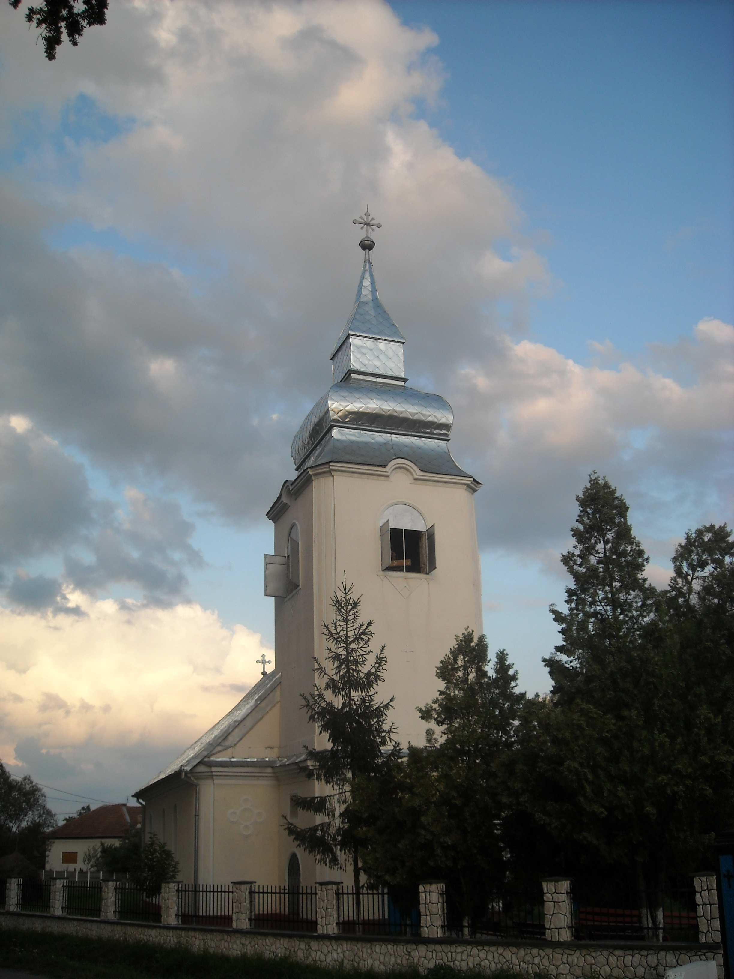 orthodox church in Bretea Mureșană, Hunedoara County, Romania